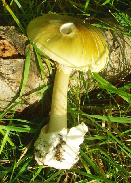 Amanita phalloides, poisonous mushroom in Southern Sweden